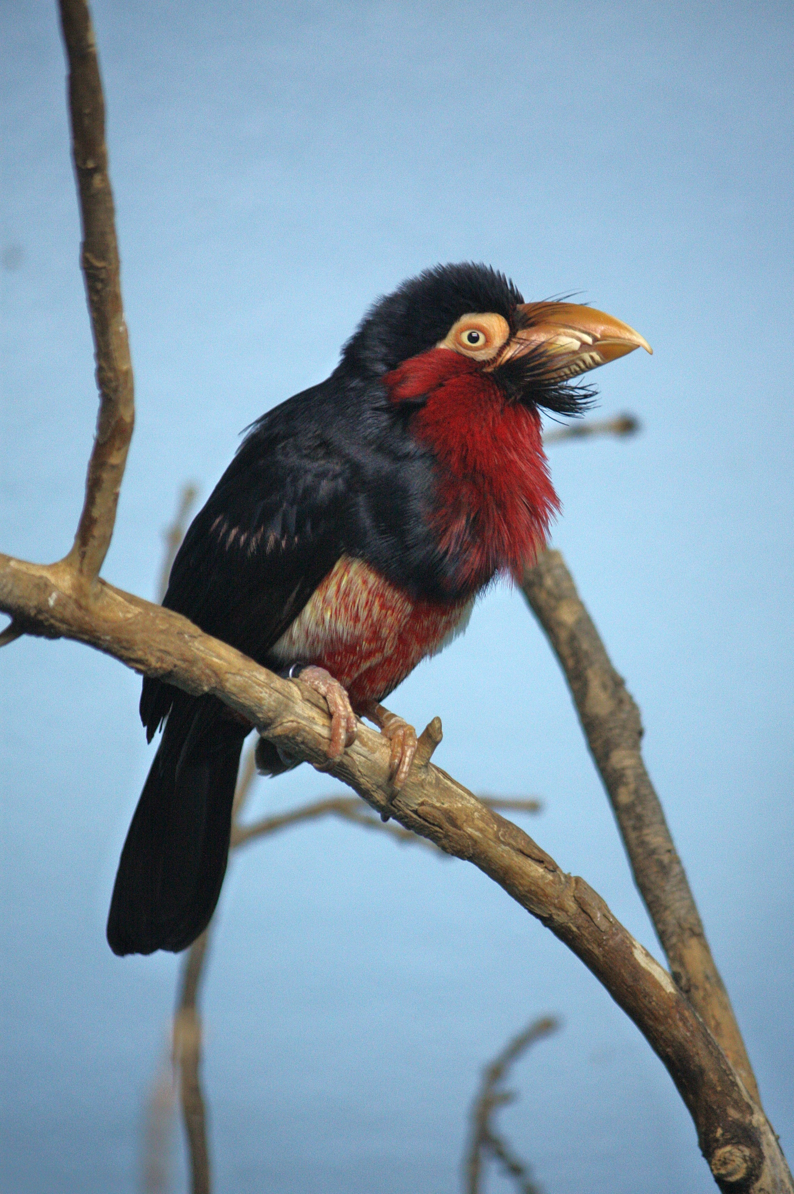 Bearded Barbet (Lybius dubius). Denver Zoo, Denver, Colorado.